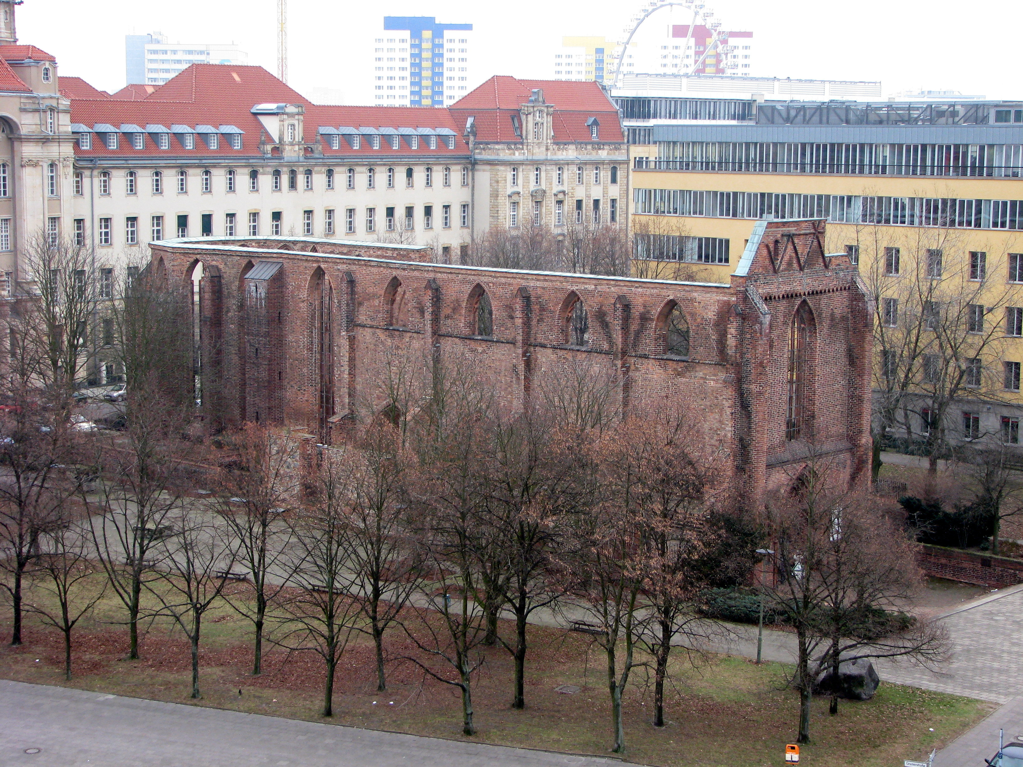 Ruins of the Franziskaner-Klosterkirche in Berlin, Mitte near the Alexanderplat.